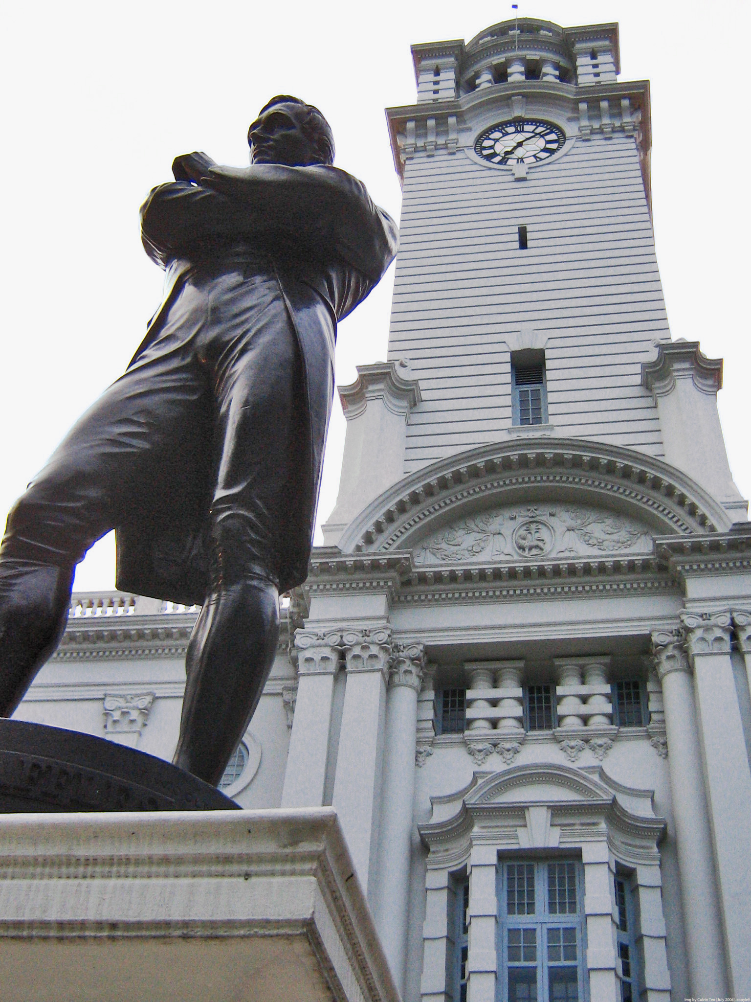 A view of Victoria Concert Hall and Theatre. Image depicts the clocktower and statue of Sir Thomas Stamford Raffles. Img by Calvin Teo, July 2006